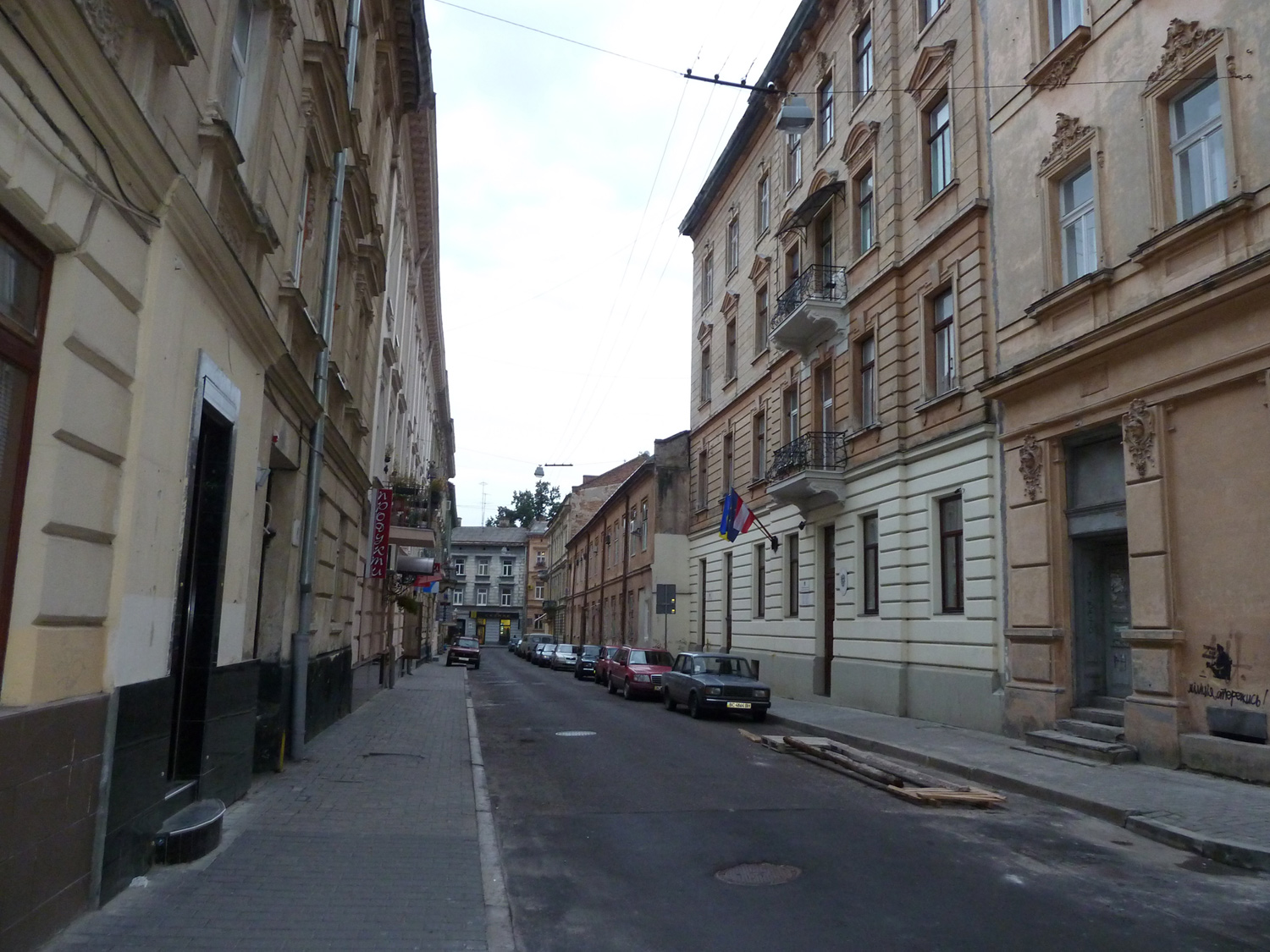 Voloshyn Street (named after Avgustyn Voloshyn) in Lviv